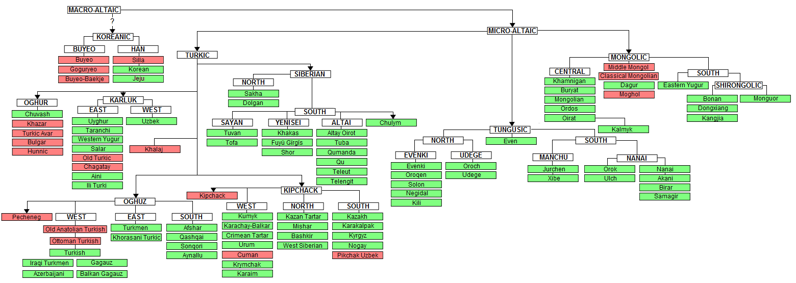 Complete Tree of Micro and Macro Altaic Languages, based on data from ethnologue.